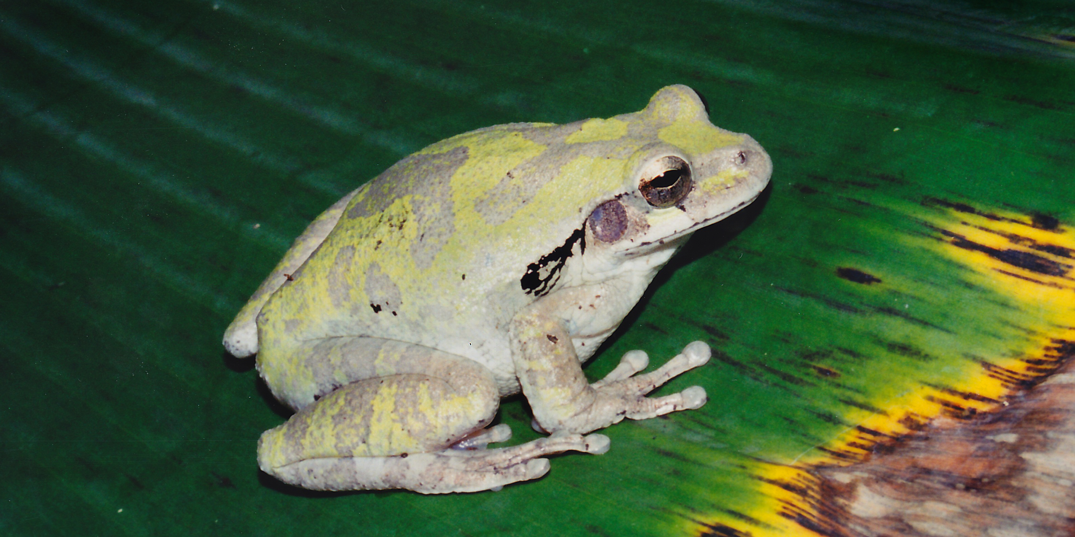 Mexican Treefrog (Smilisca baudinii) from the vicinity of Gómez Farías, Municipality of Gómez Farías, Tamaulipas, Mexico. Photographed on 8 August 2004 by William L. Farr. This image was originally photographed with film and later scanned from a print.